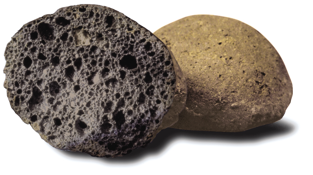 Light Expanded Clay Aggregate, commonly used in blocks, slabs, geotechnical fillings, lightweight concrete, water treatment, hydroponics and hydroculture.